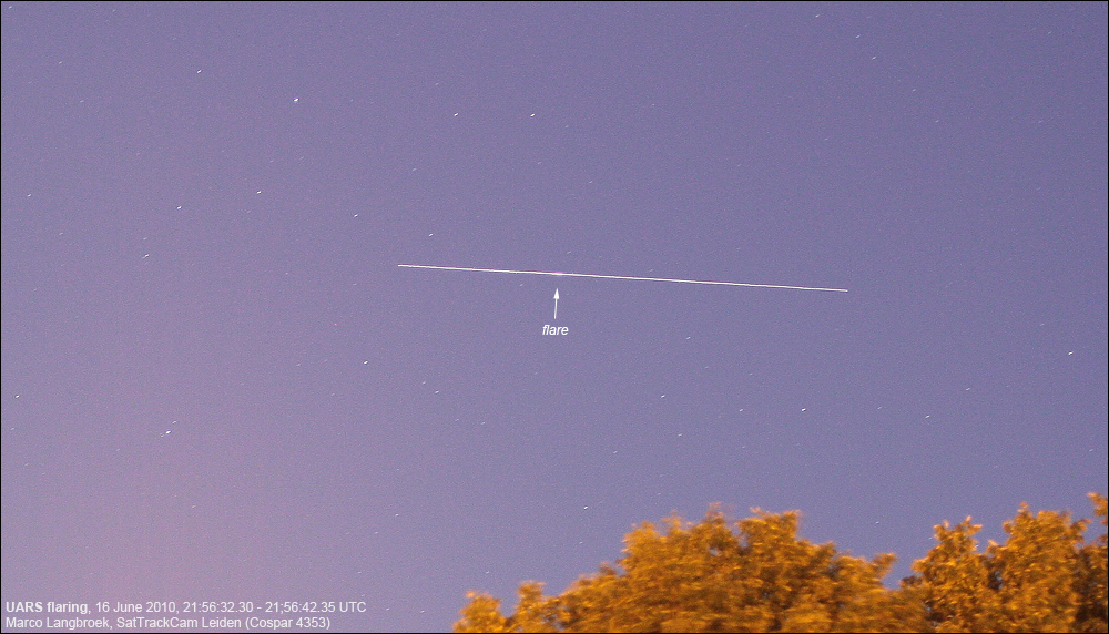 A bright pass of the UARS satellite, photographed by Marco Langbroek from the Netherlands on 16 June 2010.